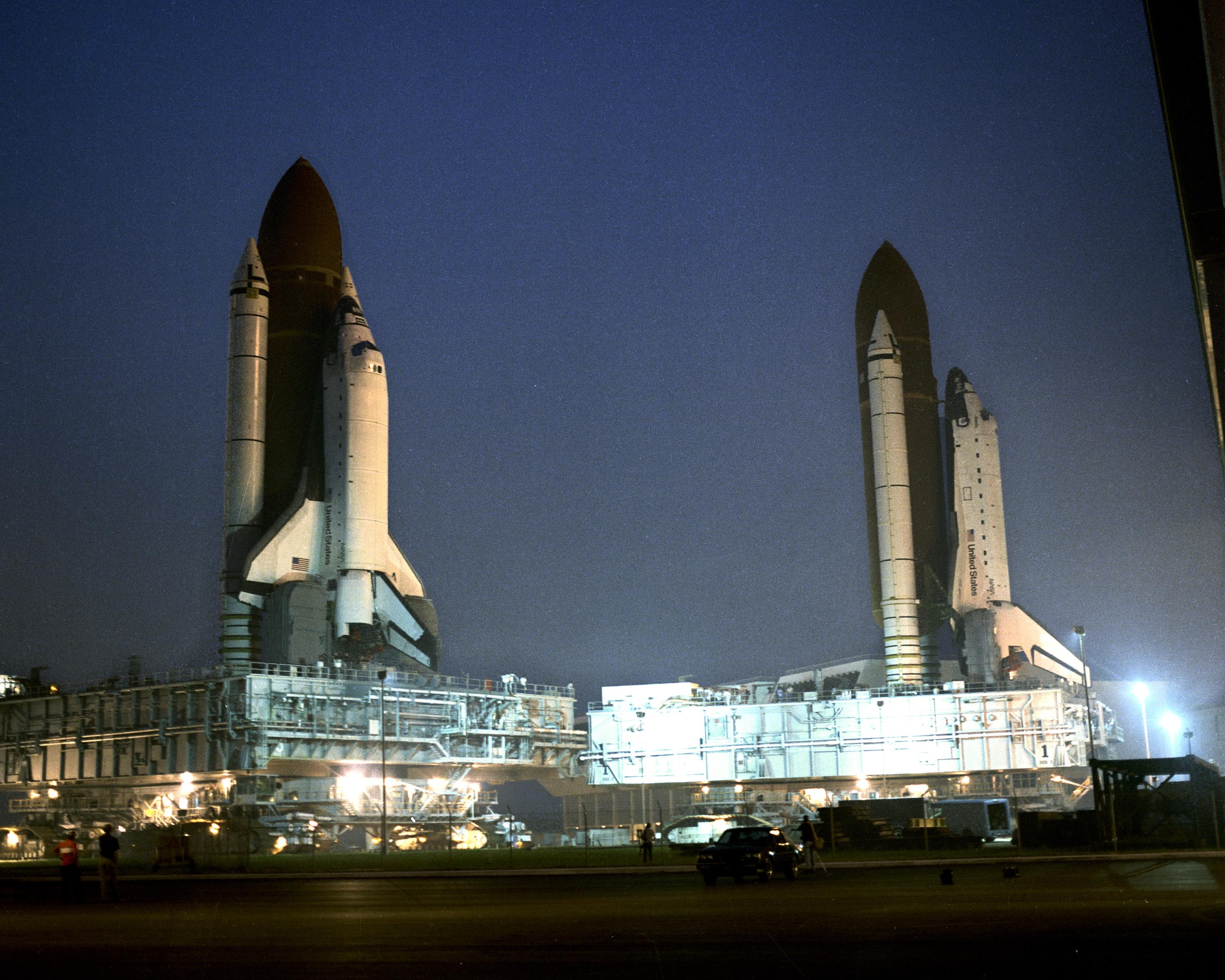 The Space Shuttle Columbia (left), slated for mission STS-35, is rolled past the Space Shuttle Atlantis on its way to Pad 39A. Atlantis, slated for mission STS-38, is parked in front of bay three of the Vehicle Assembly Building following its rollback from Pad 39A for repairs to the liquid hydrogen lines. First motion of Atlantis from the pad was at 10:14 p.m. August 8. It arrived at the VAB at 4 a.m. August 9. First motion of Coumbia leaving the VAB for the pad was at 5:47 a.m. Columbia is due to arrive at the pad at noon August 9. Once Columbia is hard down at the pad, Atlantis will be moved into the VAB for destack operations. When Columbia reaches the pad, its payload bay doors will be opened and servicing of the ASTRO-1 payload will begin. Also, portions of the Shuttle interface verification test not completed in the VAB will be conducted.